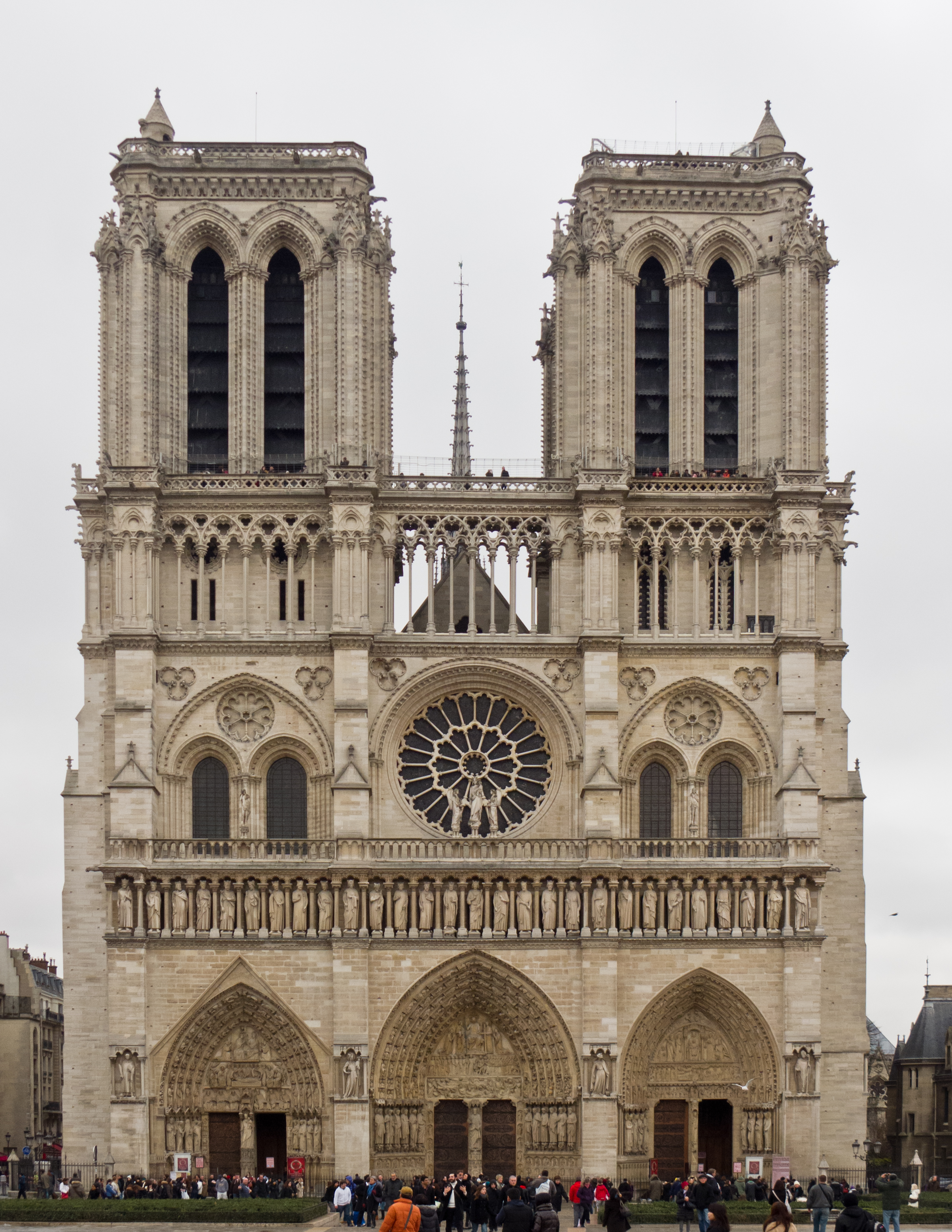 West facade of the Cathedral of Notre-Dame of Paris, France.